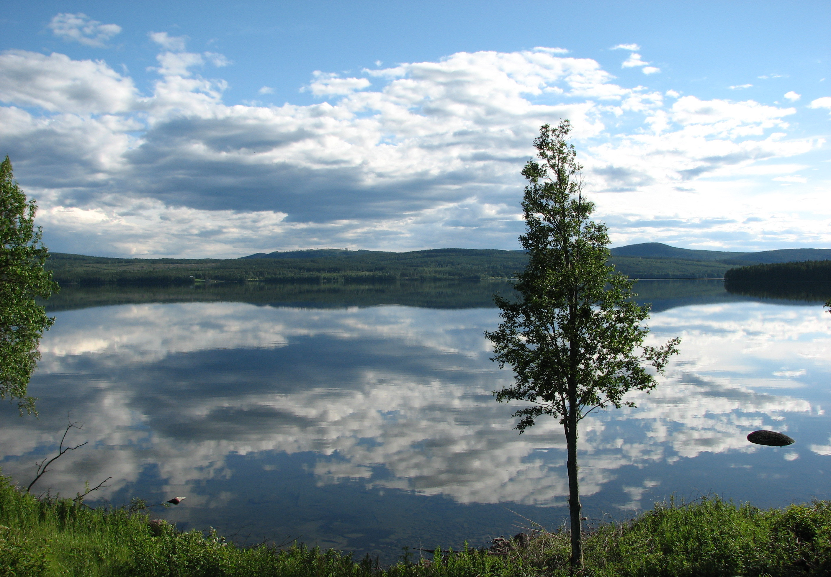 Lake Gesunden in Jämtland, Sweden